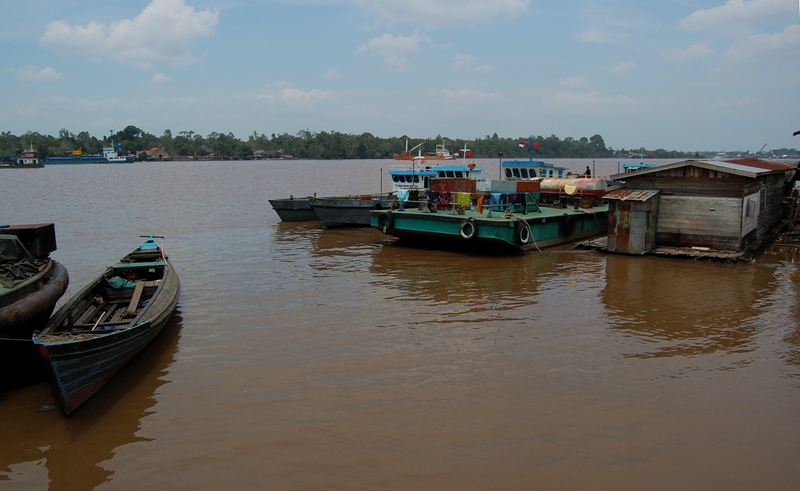 Mentaya River at Sampit, Central Kalimantan, Indonesia